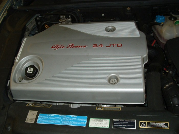 Alfa Romeo 166